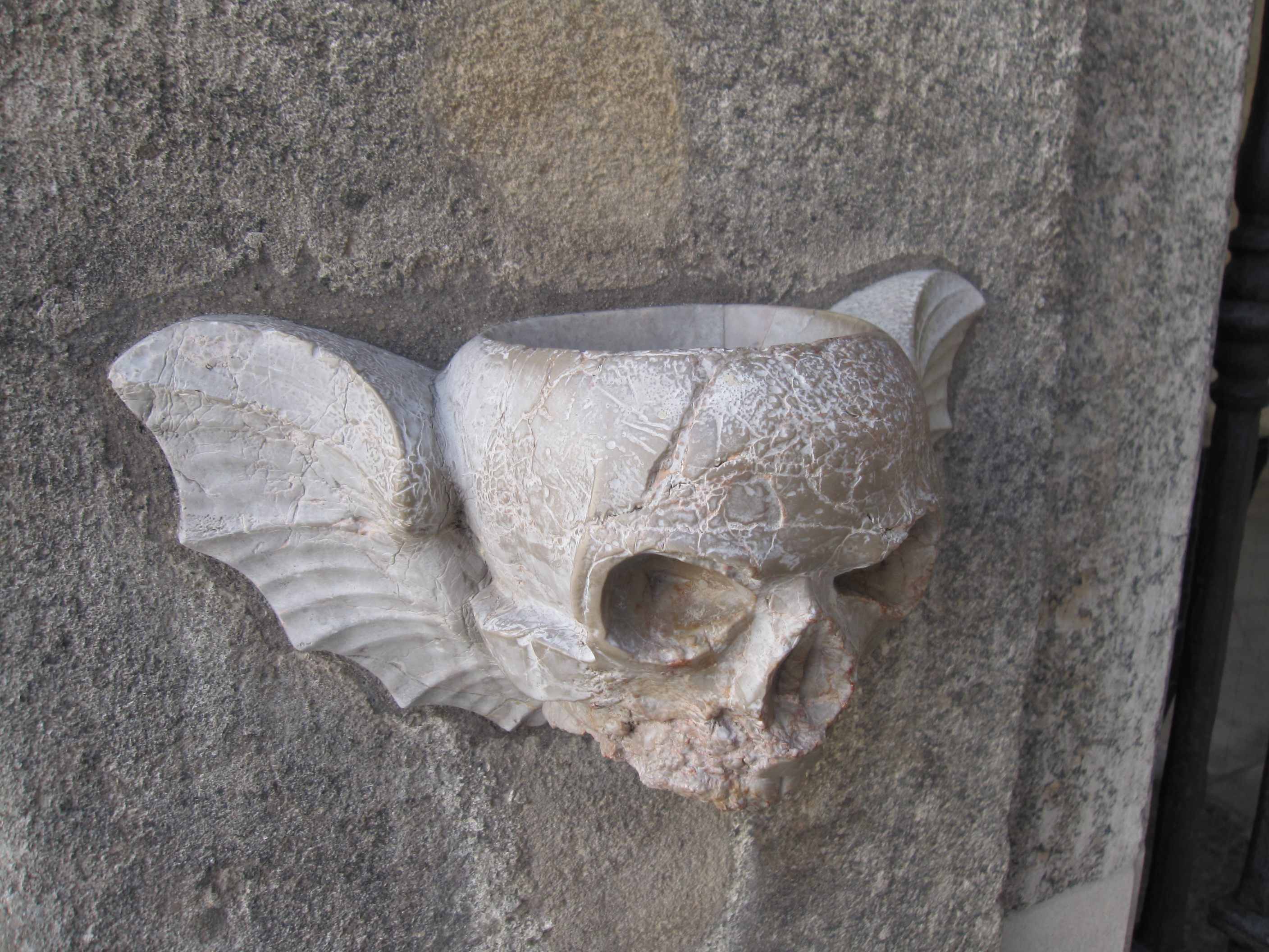 St. Stephen's Cathedral, Vienna